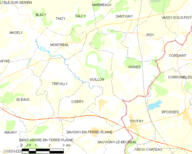 Map of French municipality Guillon